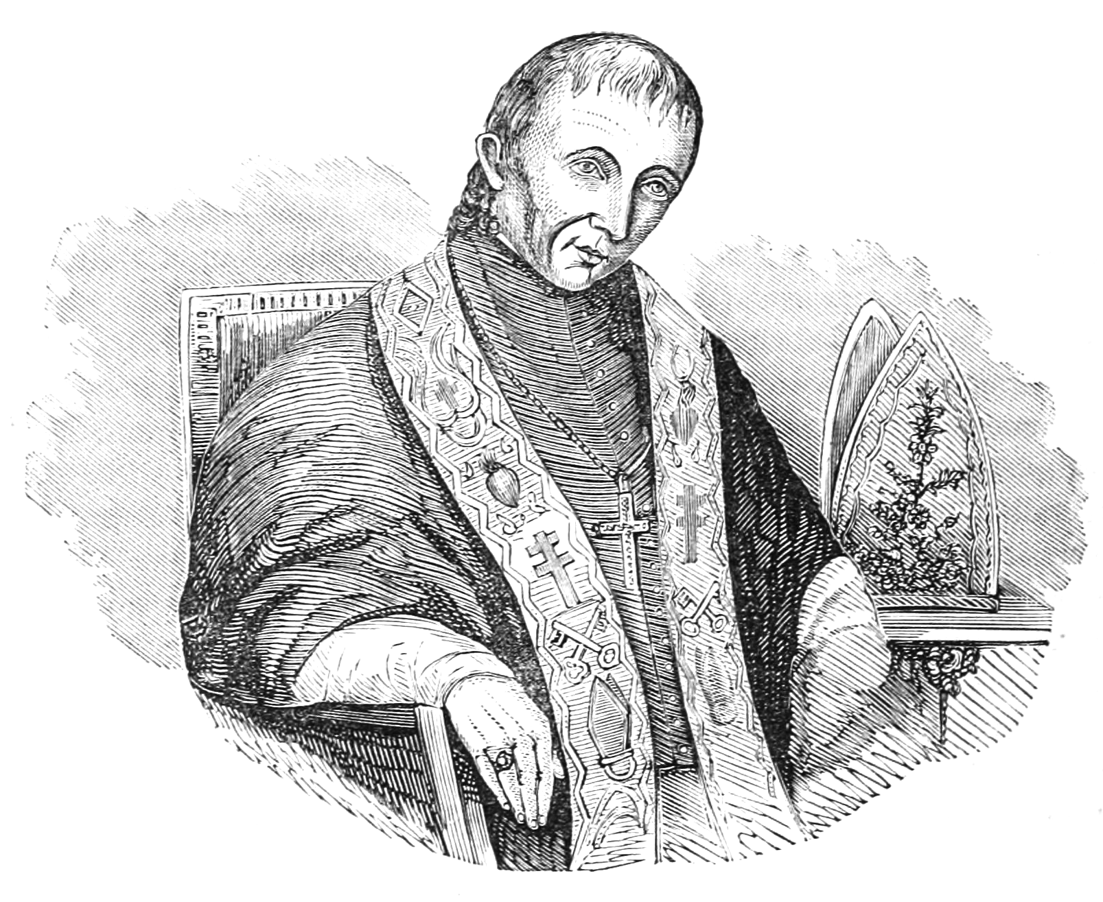 Portrait of the Most Rev. Leonard Neale, Archbishop of Baltimore, published in 1857